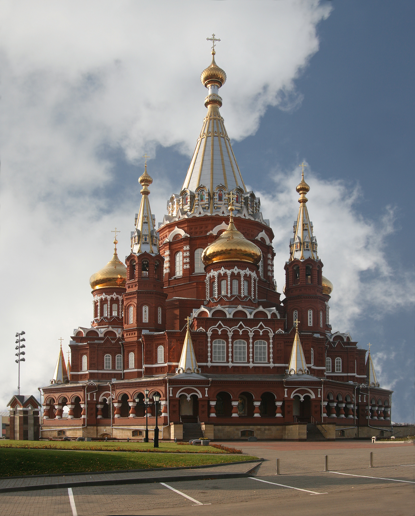 Description: The Svyato Mikhailovsky Cathedral in Ischewsk, Republic of Udmurtia in Russia